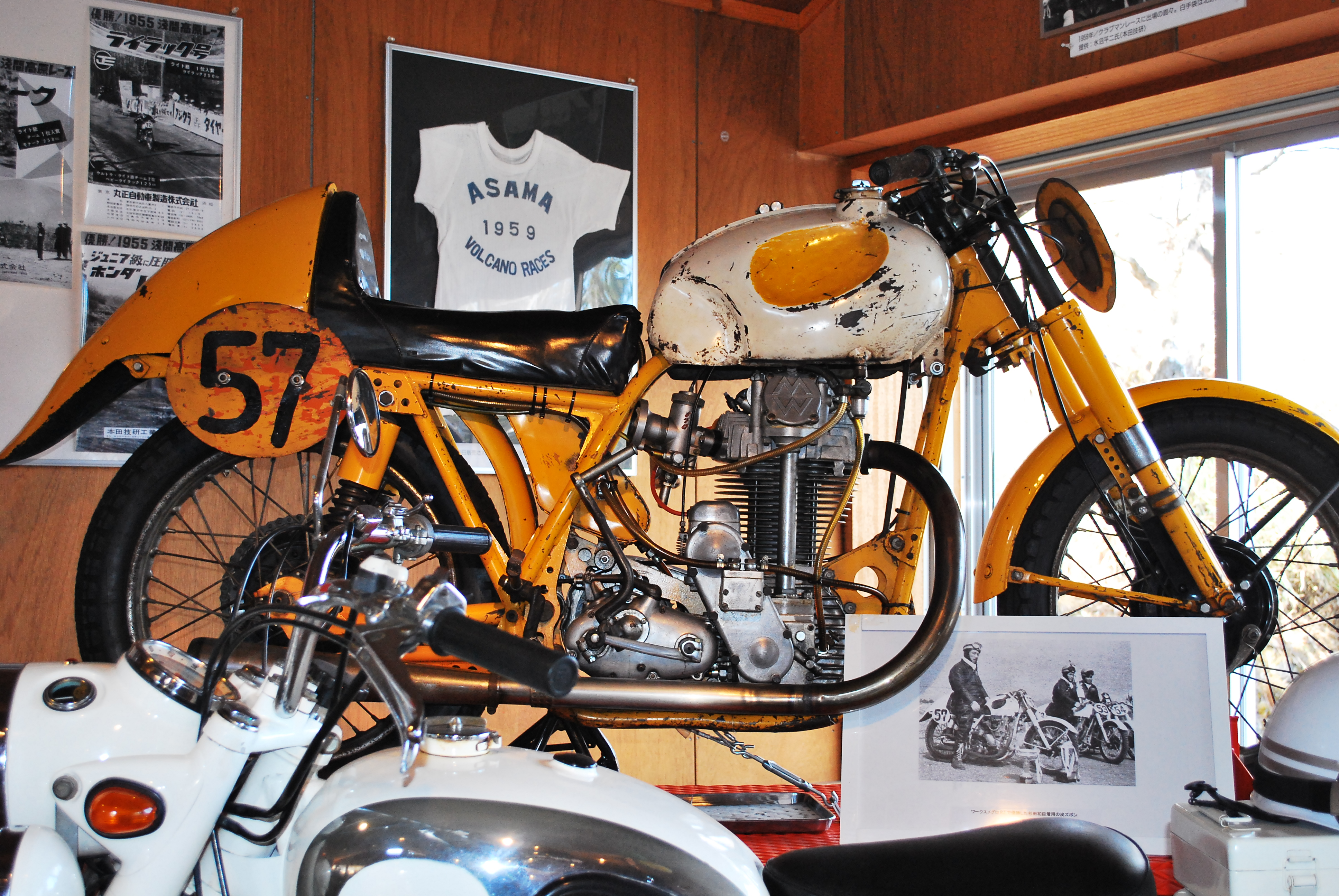 Meguro RZ (1957, Asama race)